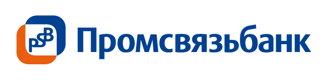 Logo Joint Stock Company "Promsvyazbank" (2008)